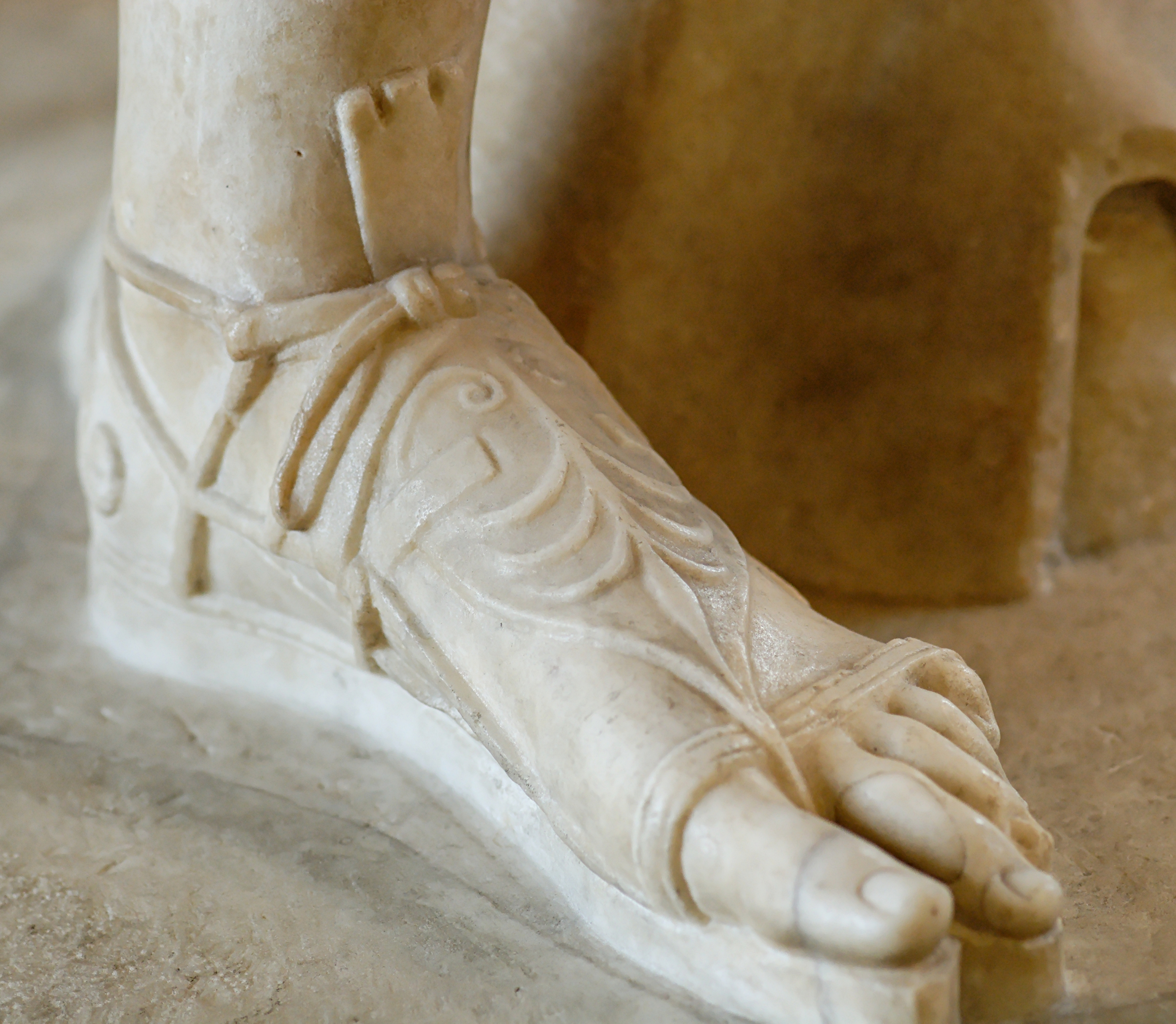 "Diana of Versailles", detail of the left foot. Marble, Roman artwork, Imperial Era (1st-2nd centuries CE). Found in Italy, maybe at Nemi (Latium).